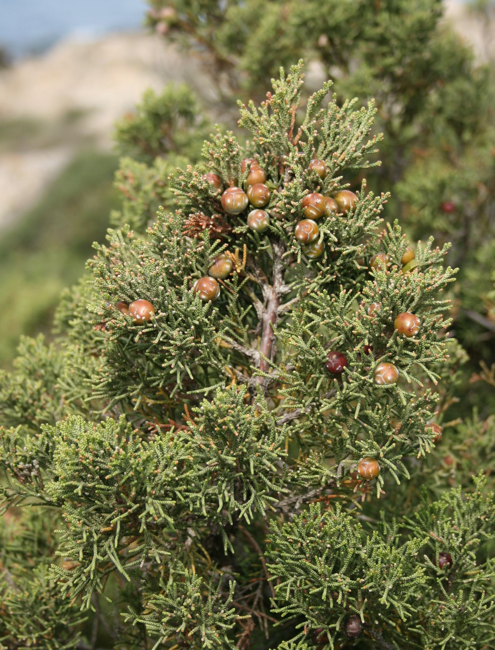 Juniperus phoenicea, Zypressengewächse (Cupressaceae) - Italien/Italia/Italy: Kalabrien/Calabria, Prov. Crotone, Capo Rizzuto S Crotone